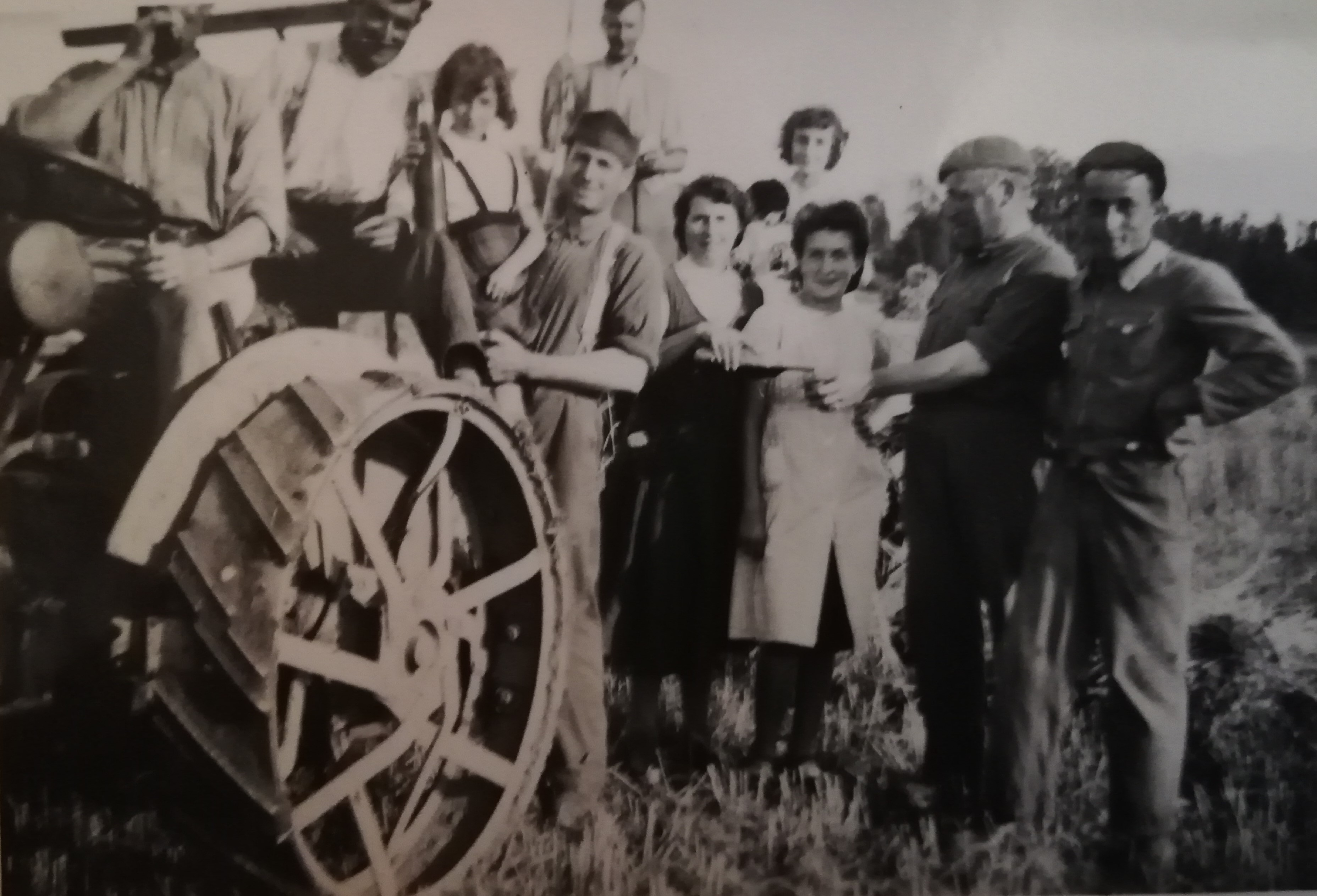 Group of maquisards from Alsace and Lorraine, active in the Lot (department), and harvest participants in a family of Mayrac (Lot, France) hosting children Lorraine Jews.